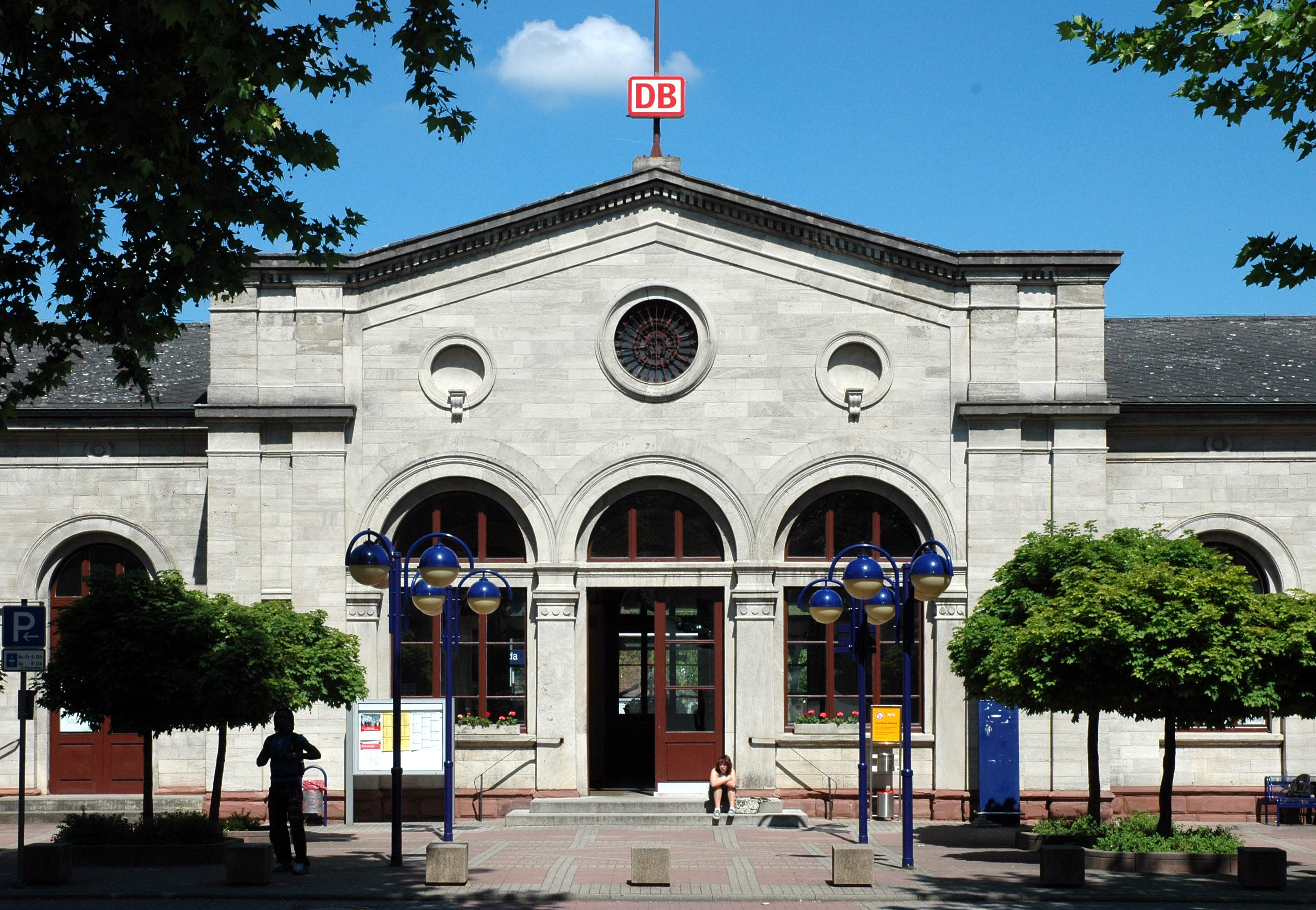 middle part of Lauda station building.